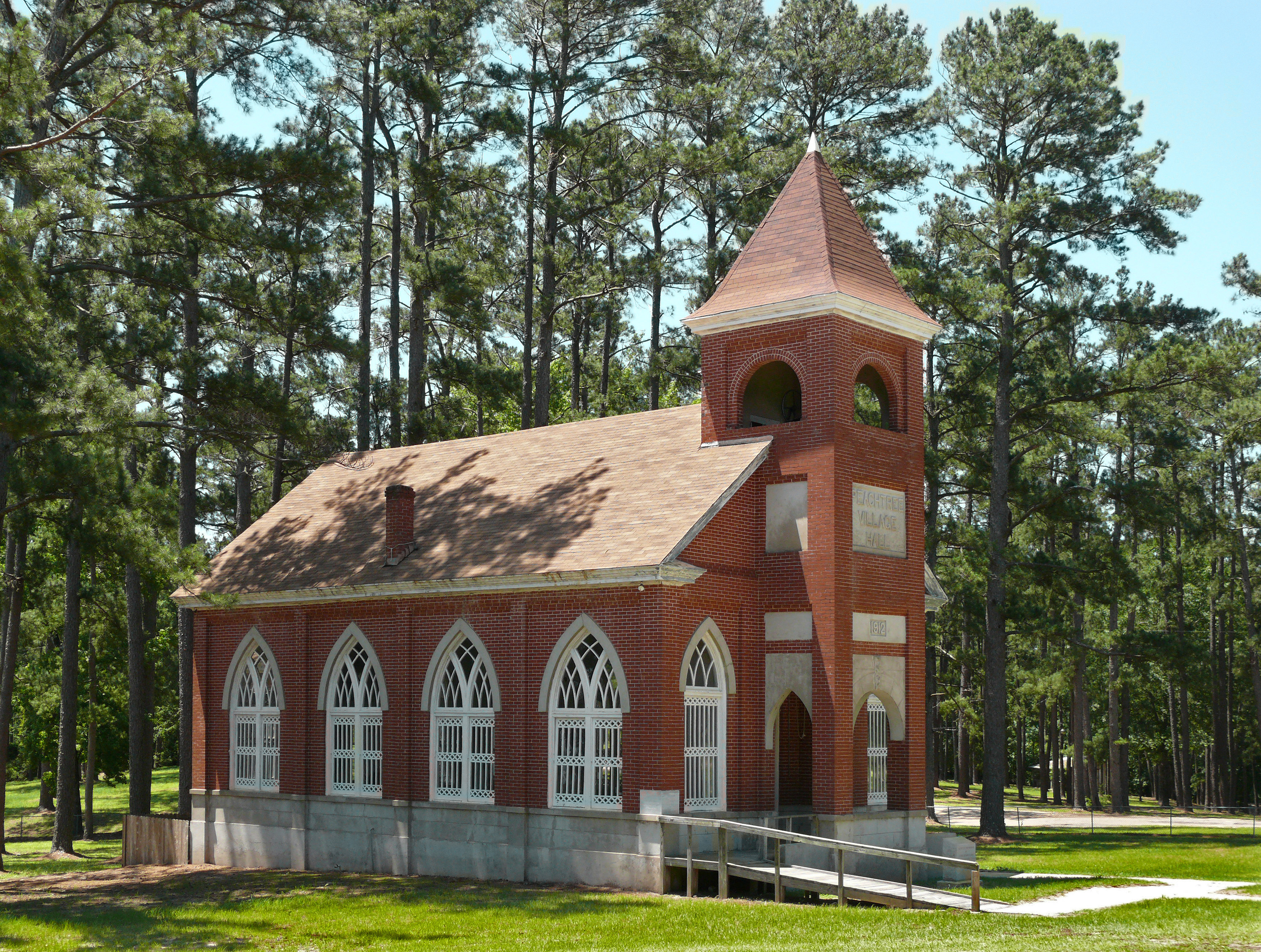 Peach Tree Village was the largest and most prominent of the villages established by the Alabama Indians in the late 1700s.